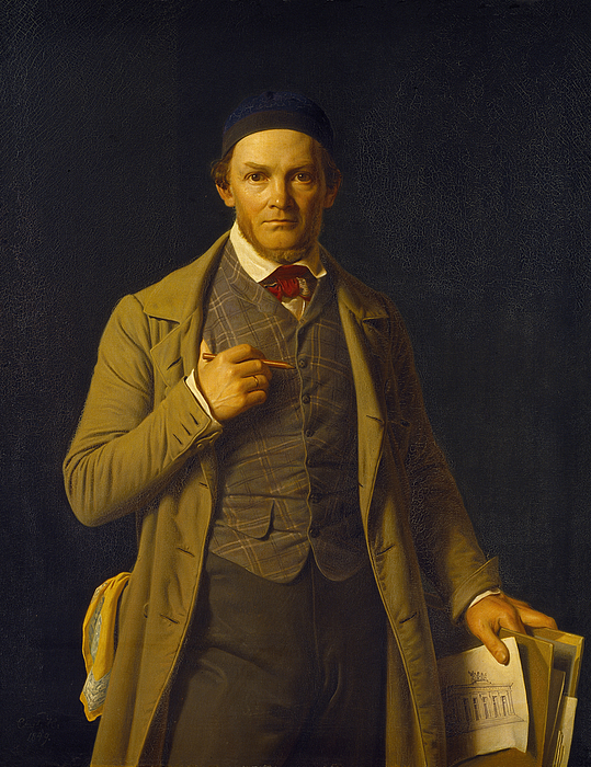 Rhe Danish architect Michael Gottlieb Bindesbøll, portray by Constantin Hansen